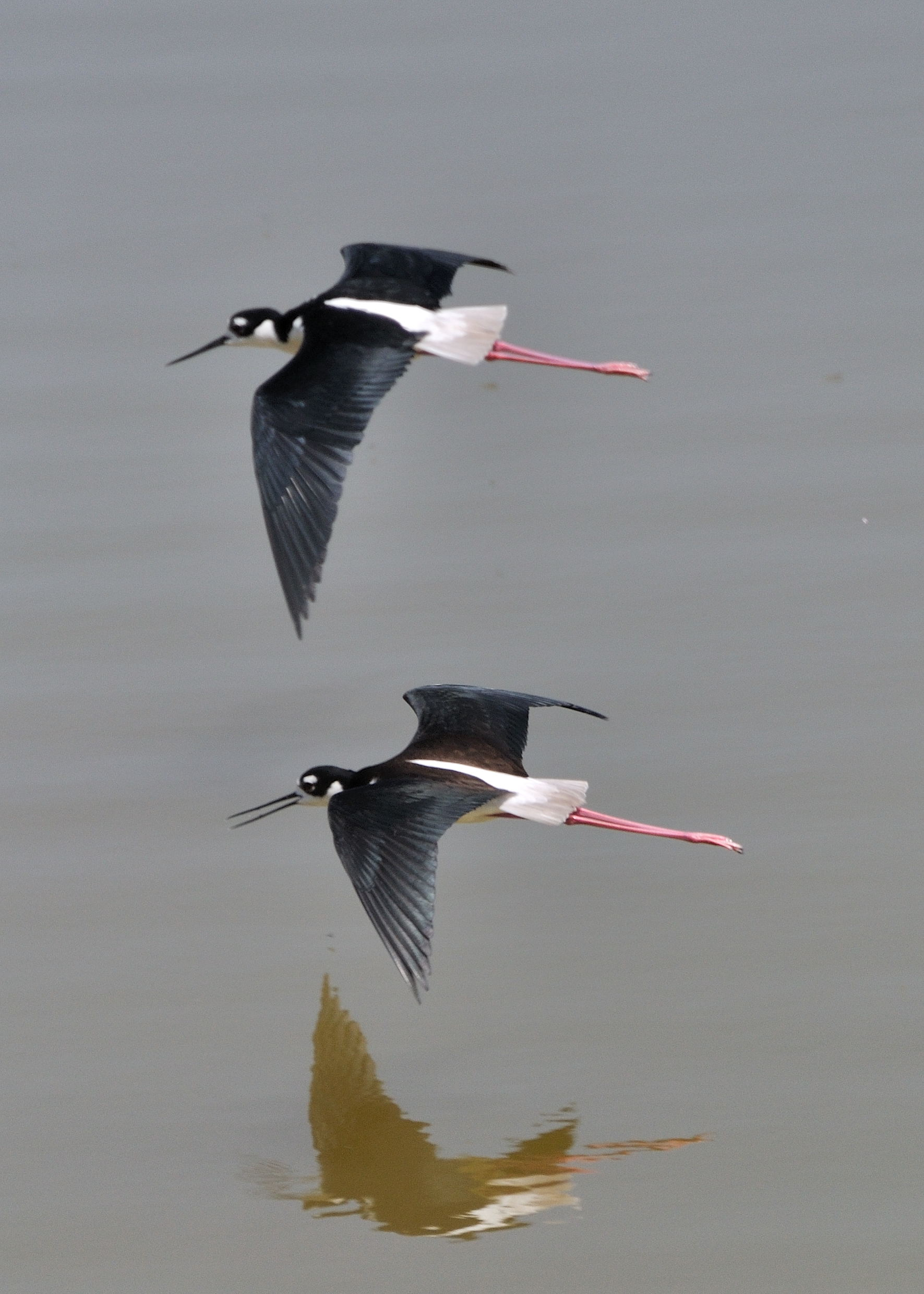 Scene from Alviso Marina